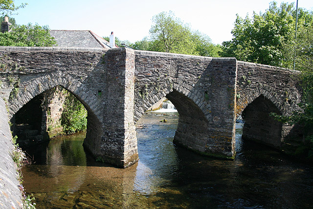 Medieval bridge over the River Walkham at Horrabridge, Devon